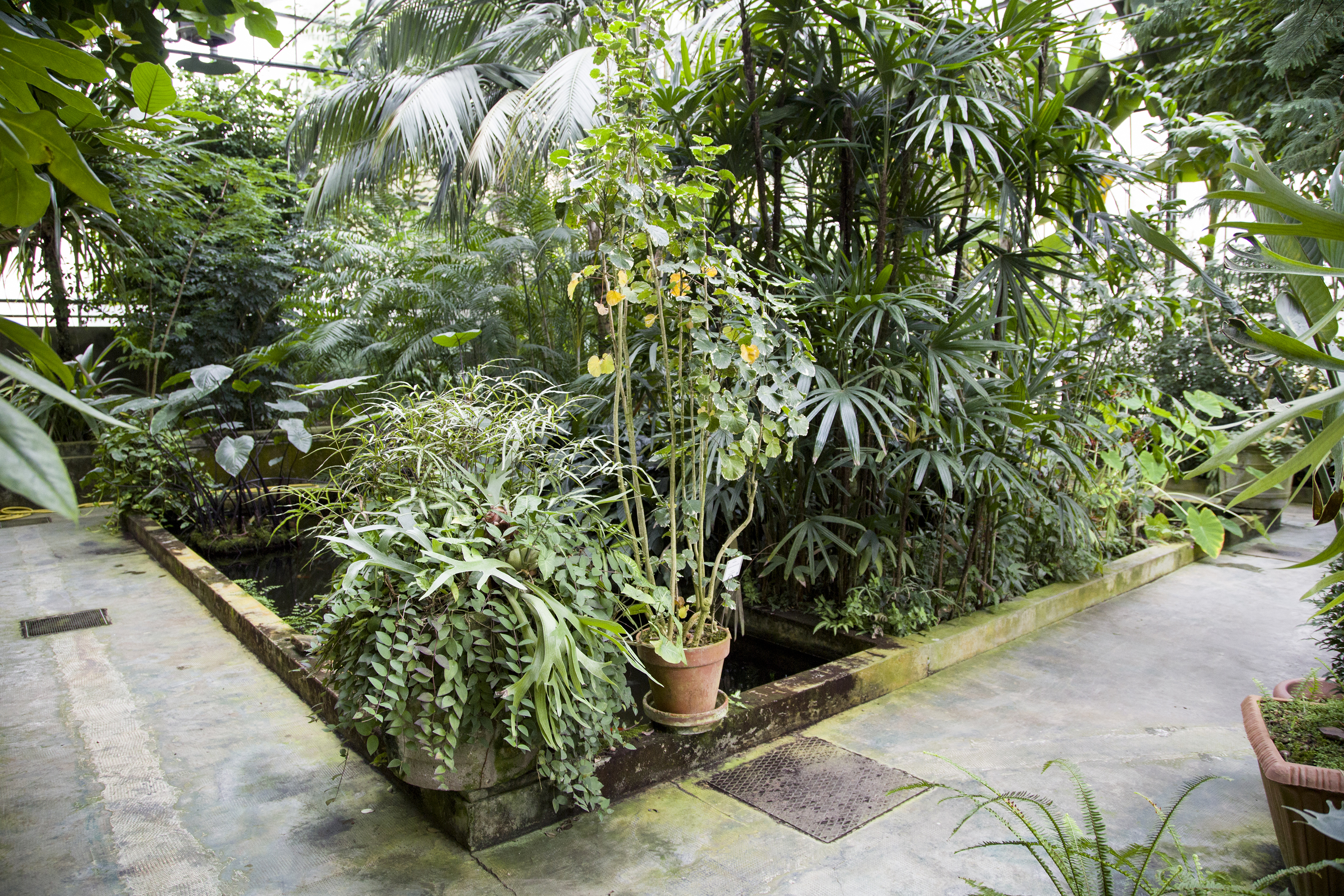 This is a photo of a monument which is part of cultural heritage of Italy.